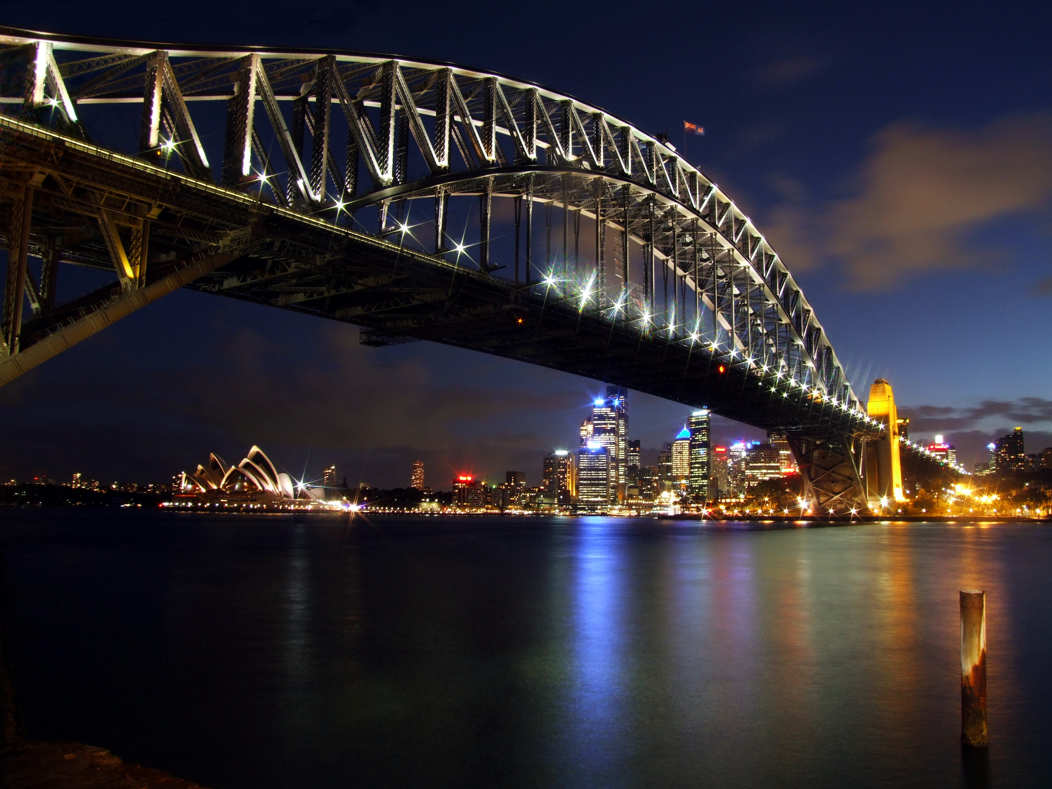 Sydney at night. Picture of the Sydney Harbour Bridge. No. 4. Edited to remove some grain.